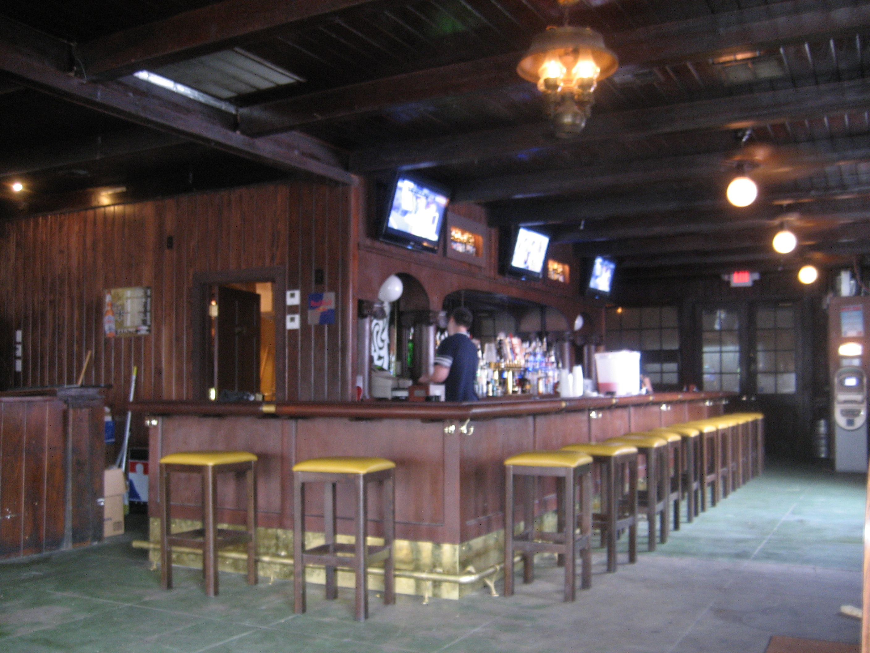 New Orleans: Interior of Rocco's Bar (formerly "Bruno's").